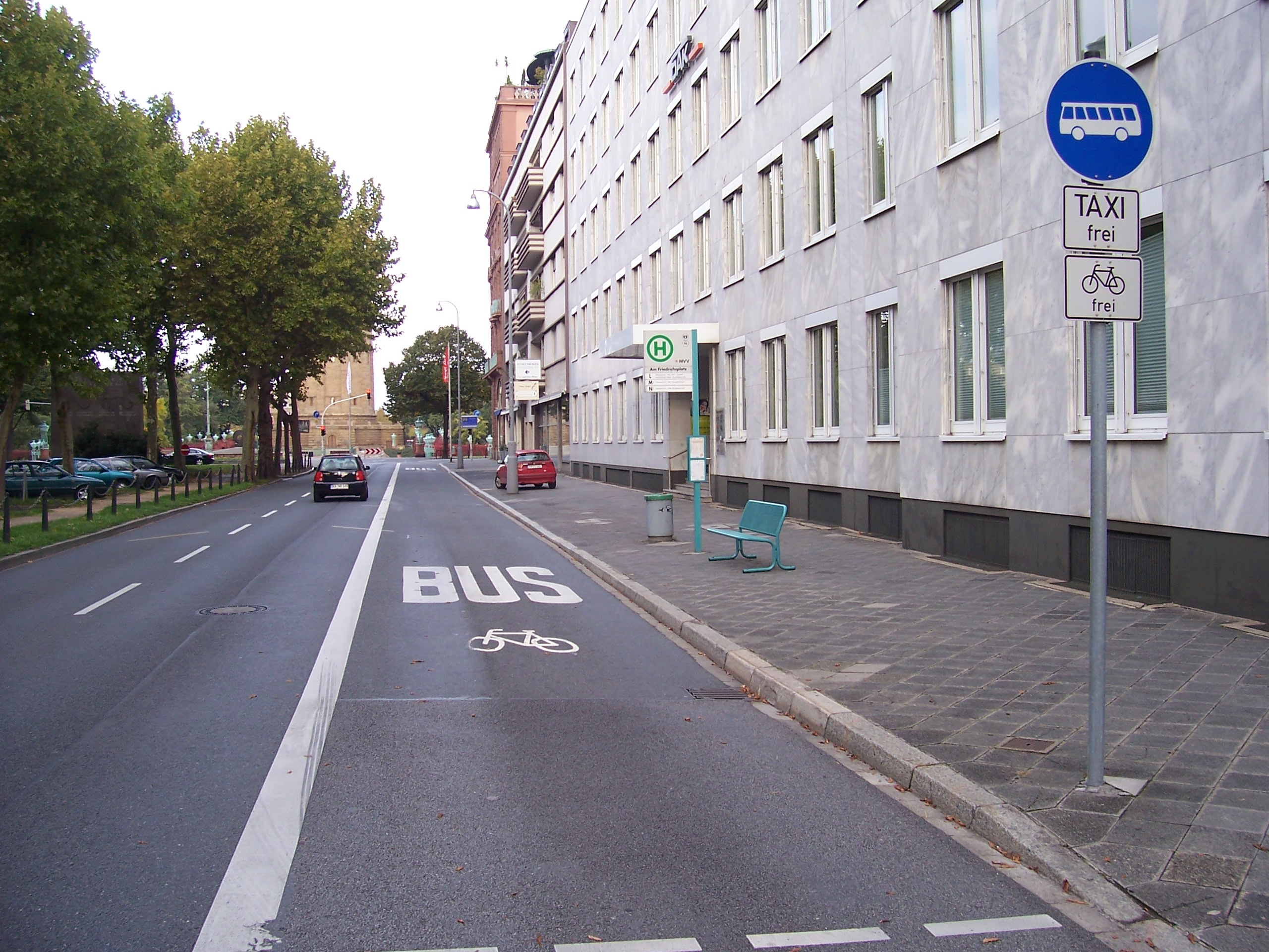 A bus only lane (taxis and bicycles allowed) and a bus stop in Mannheim, Germany